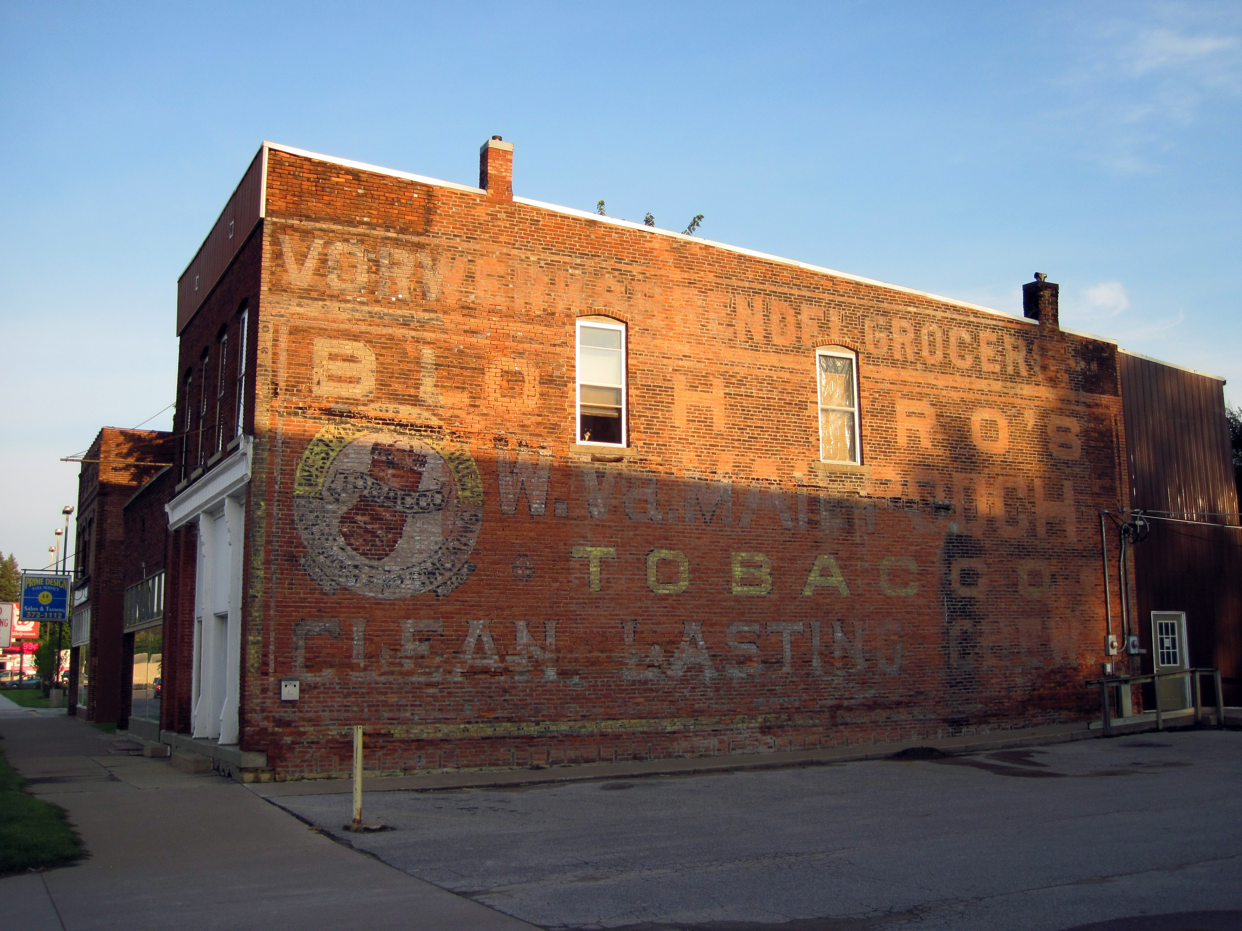 Ghost sign, Fort Madison